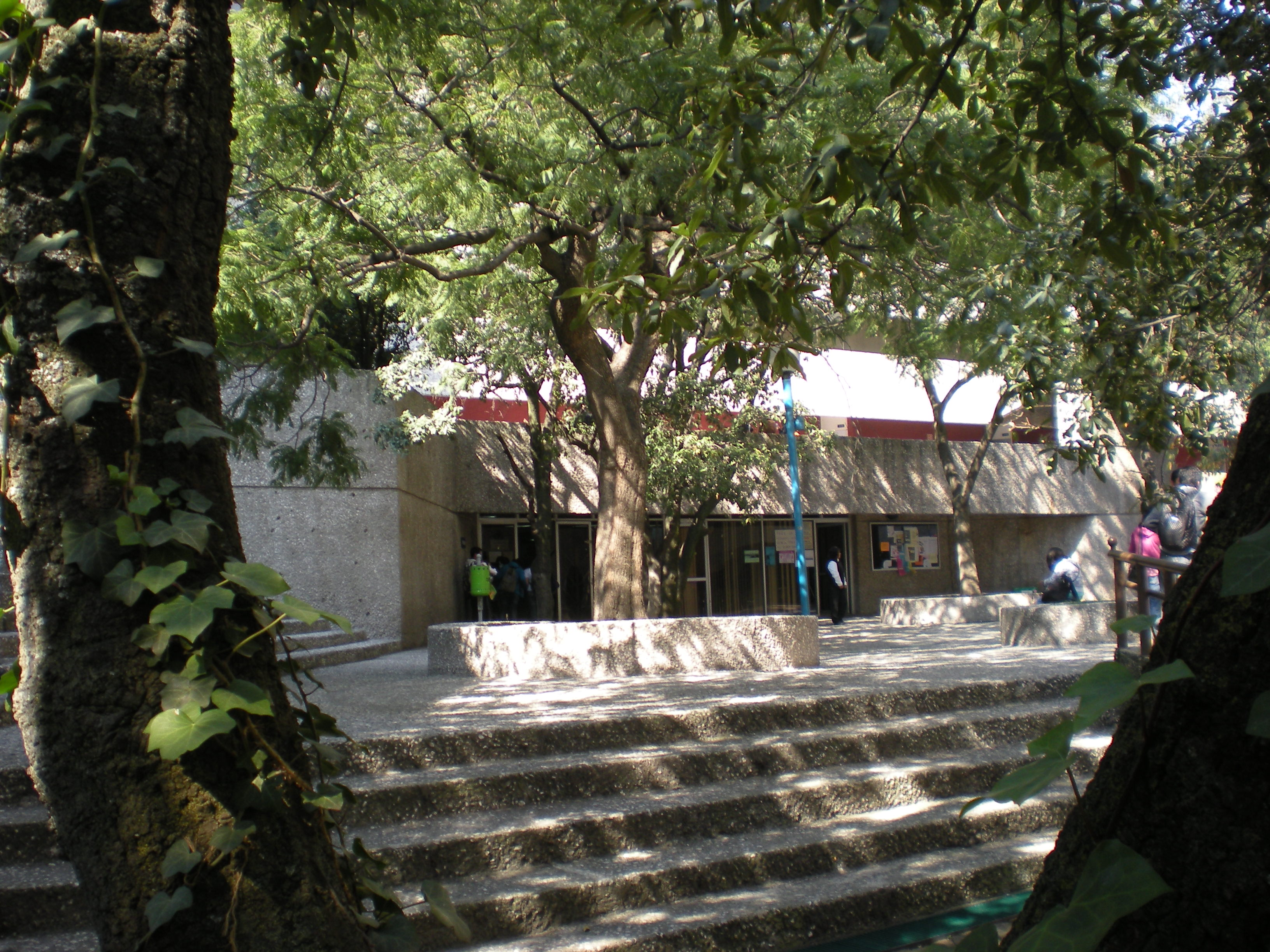 Dining hall for students and staff, UPN México